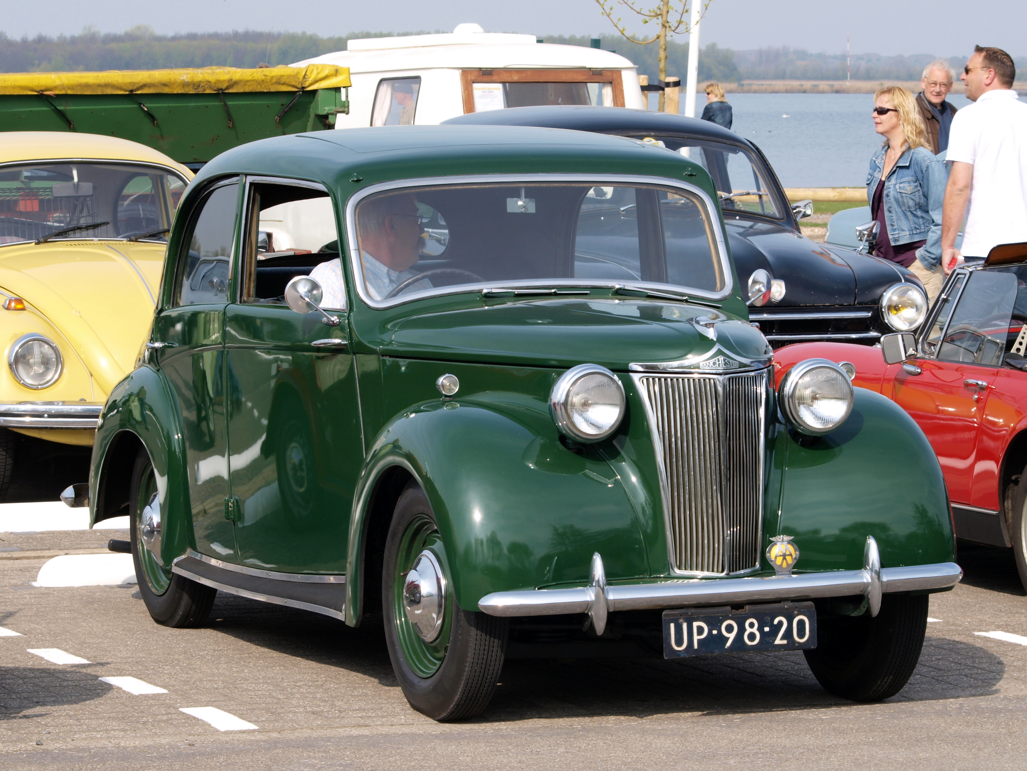 Cars and motorcycles photographed at the Voorschotense Oldtimer Vereniging Show, Valkenburgse meer, The Netherlands. OLYMPUS DIGITAL CAMERA This sports saloon coachwork on the Lanchester LD10 is not the standard all-steel body but coachbuilt by Barker